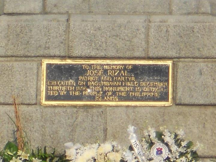 Rizal monument plaque close-up